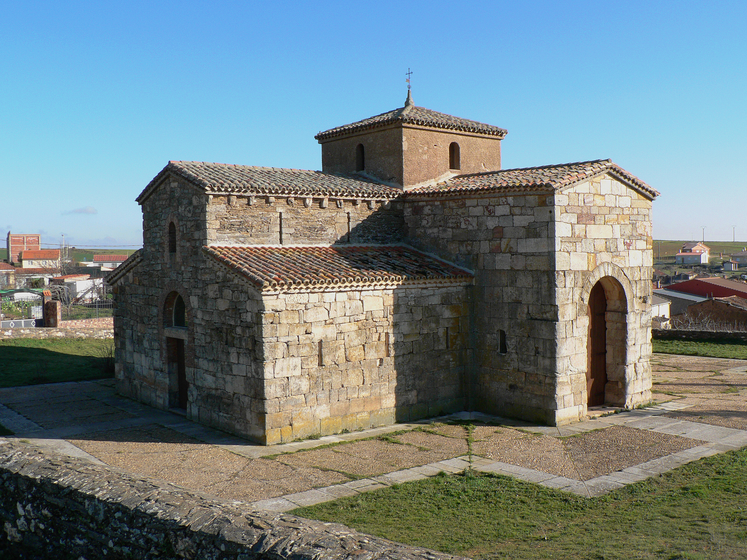 The visigotic church in San Pedro de la Nave, province of Zamora, Spain